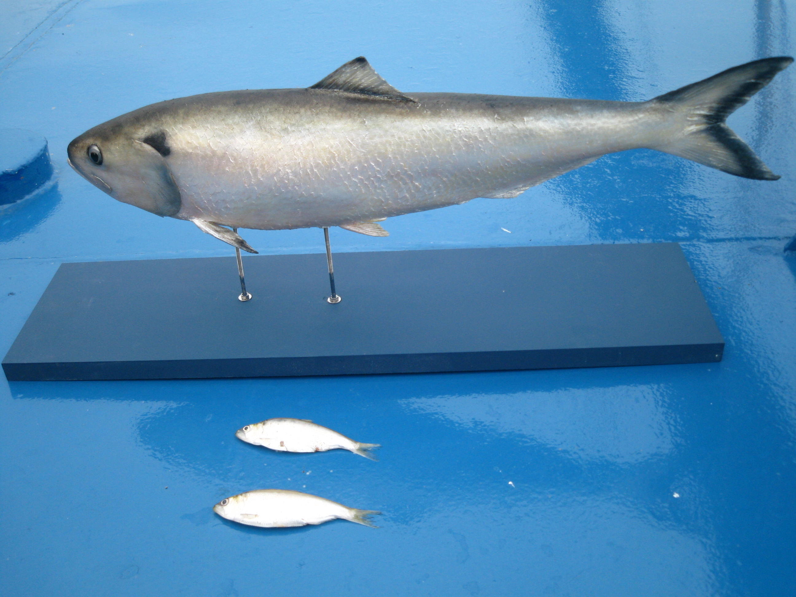 Shads,alosa alosa, an old one und two joung, caught in the lower River Rhine 2010.10.07